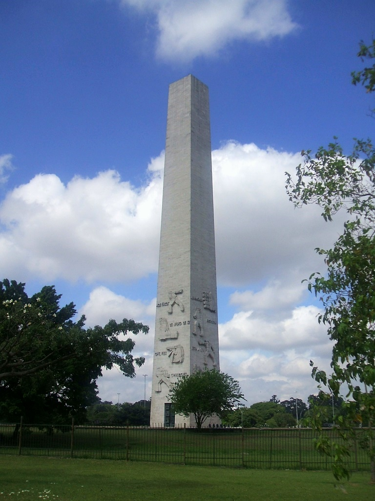 Obelisk of São Paulo, in Ibirapuera Park. São Paulo, Brazil.